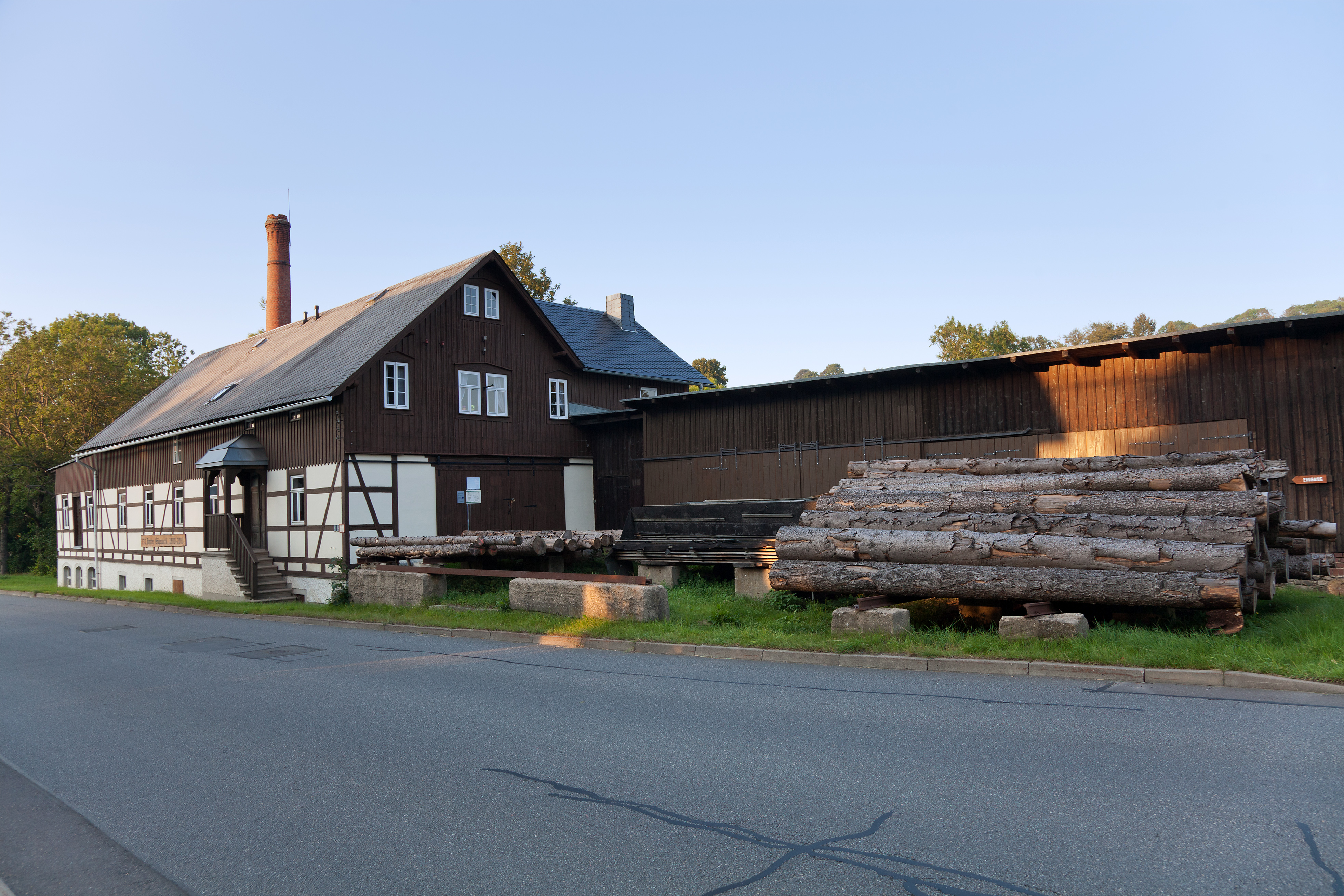 Mulda, Saxony, sawmill